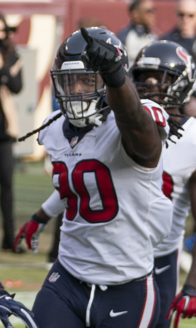 Brennan Scarlett of the Houston Texans celebrates with teammates after intercepting a pass in a game against the Washington Redskins at FedExField on November 18, 2018 in Landover, Maryland.